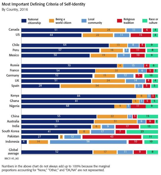 BBC poll, Most important defining criteria of self-identity, 2016